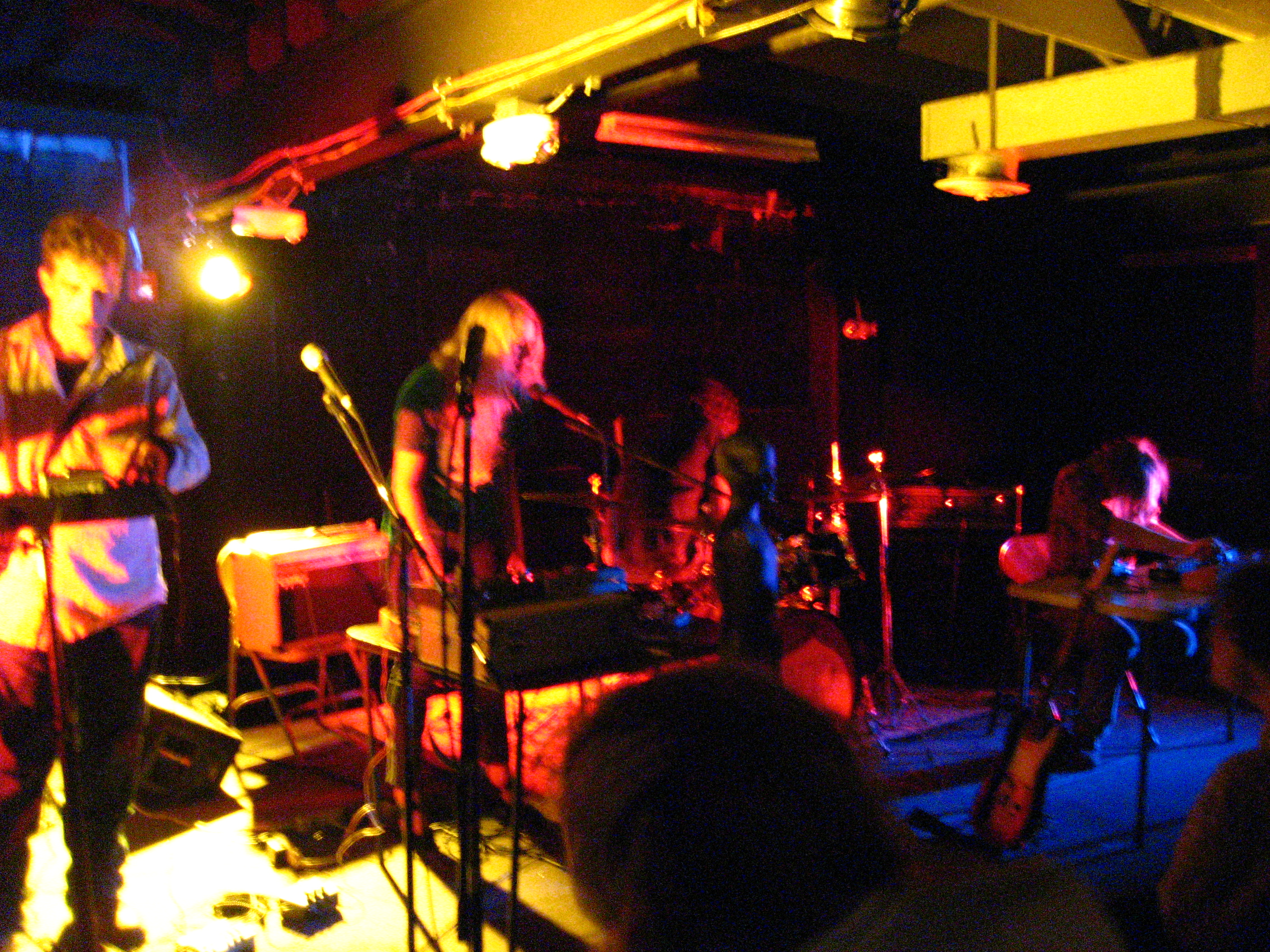 sunburned hand of the man